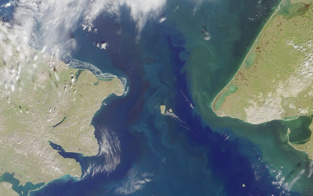 The Bering Strait, separating Siberia from Alaska in the North Pacific. NASA image, taken by MISR sattelite